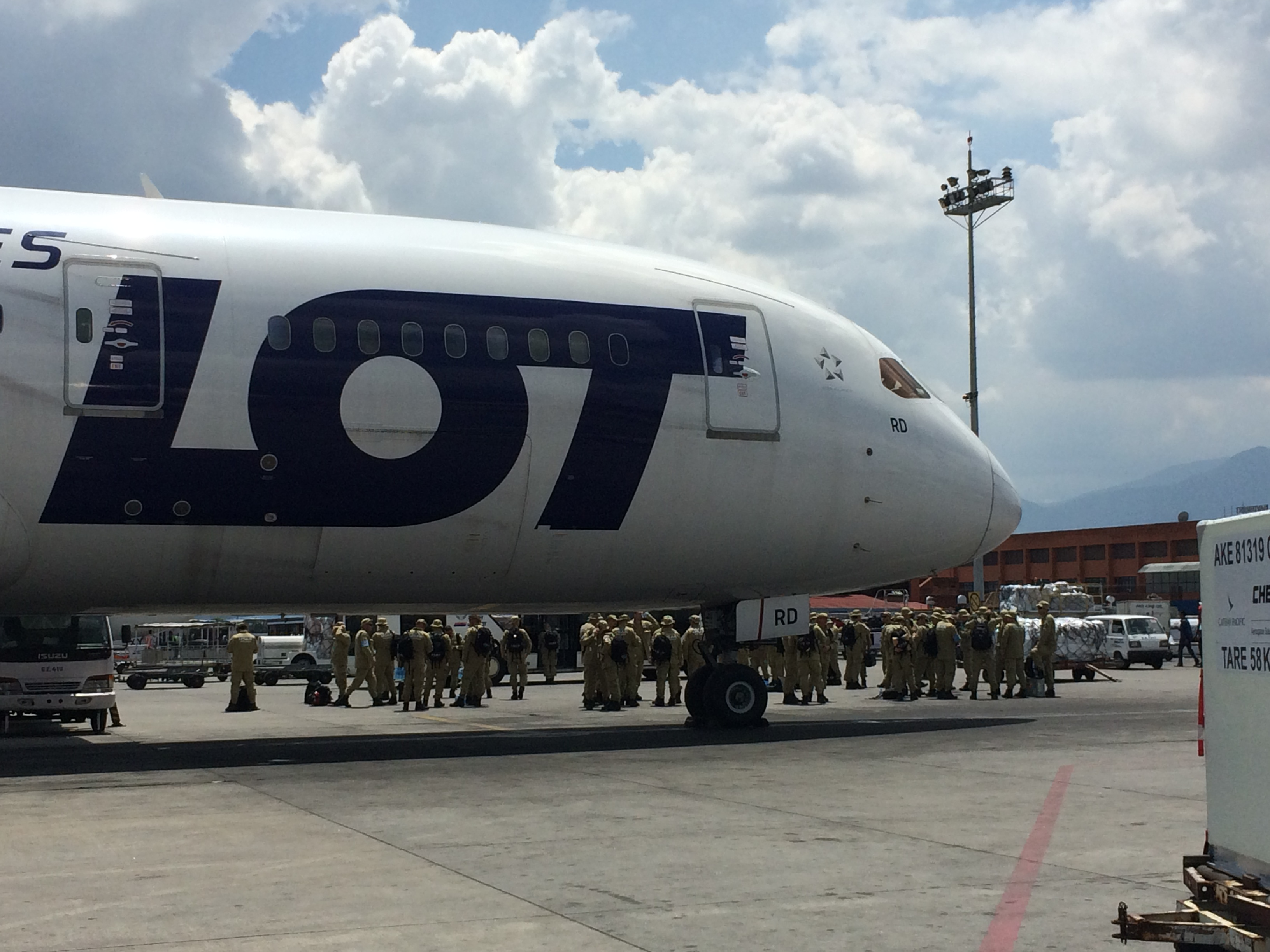 Polish rescue team at Kathmandu airport apron as a part of humanitarian response to the 2015 Nepal earthquake (April 27, 2015)